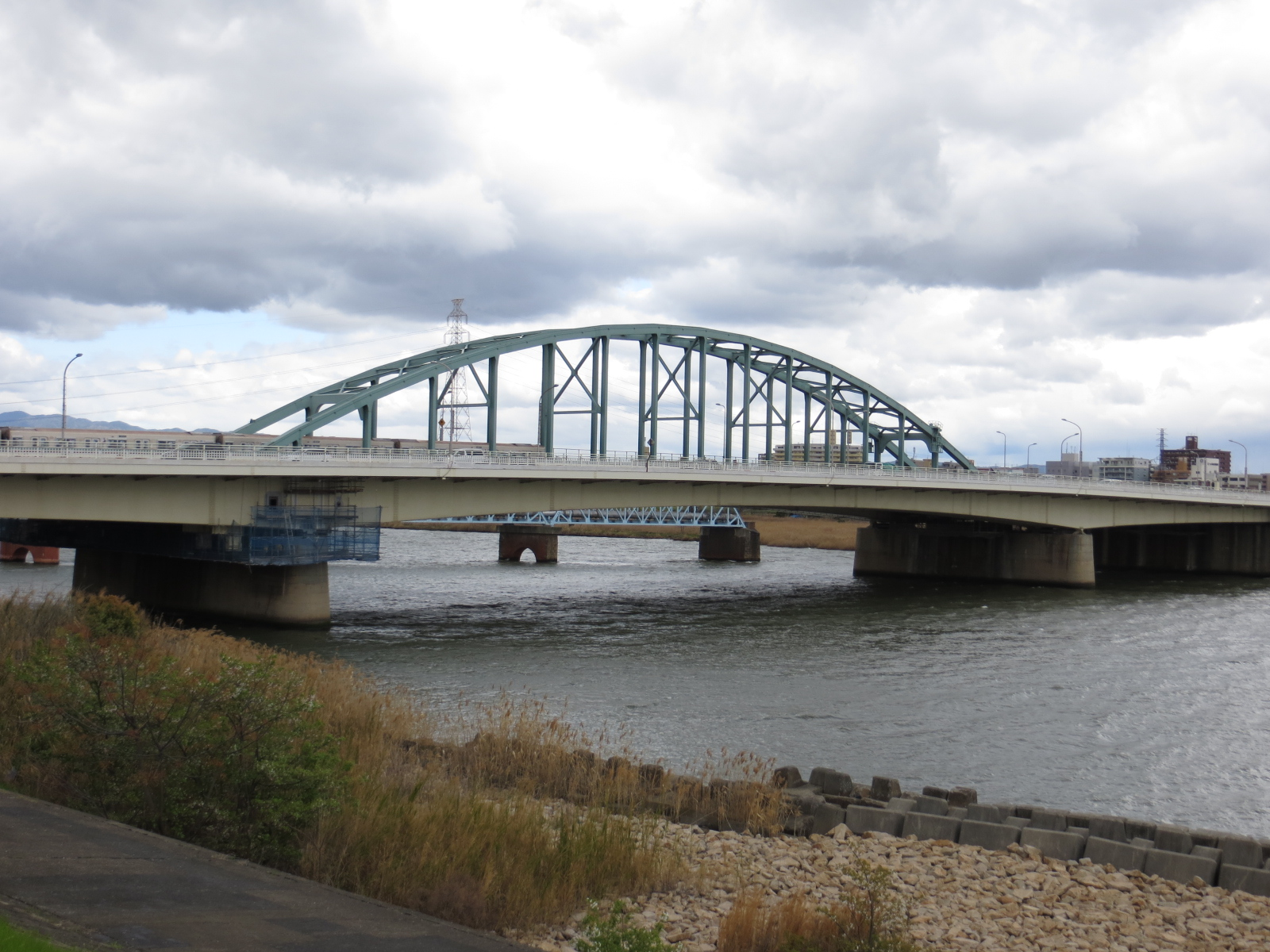 Shin Yodogawa Ohashi, Bridge, Osaka.